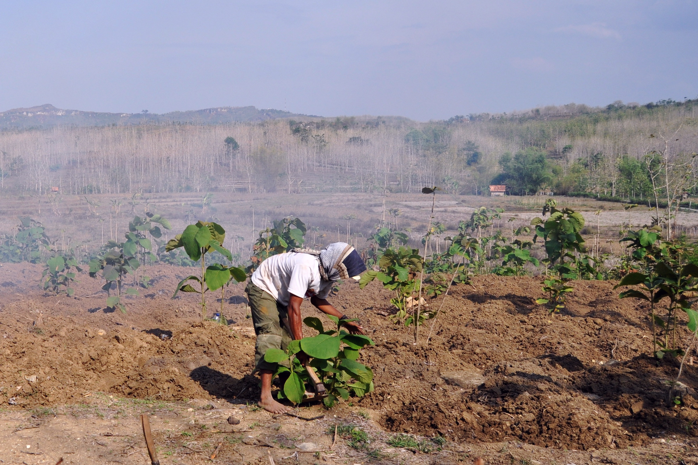 Teak (Tectona grandis) coppice. Blora, Central Java, Indonesia.